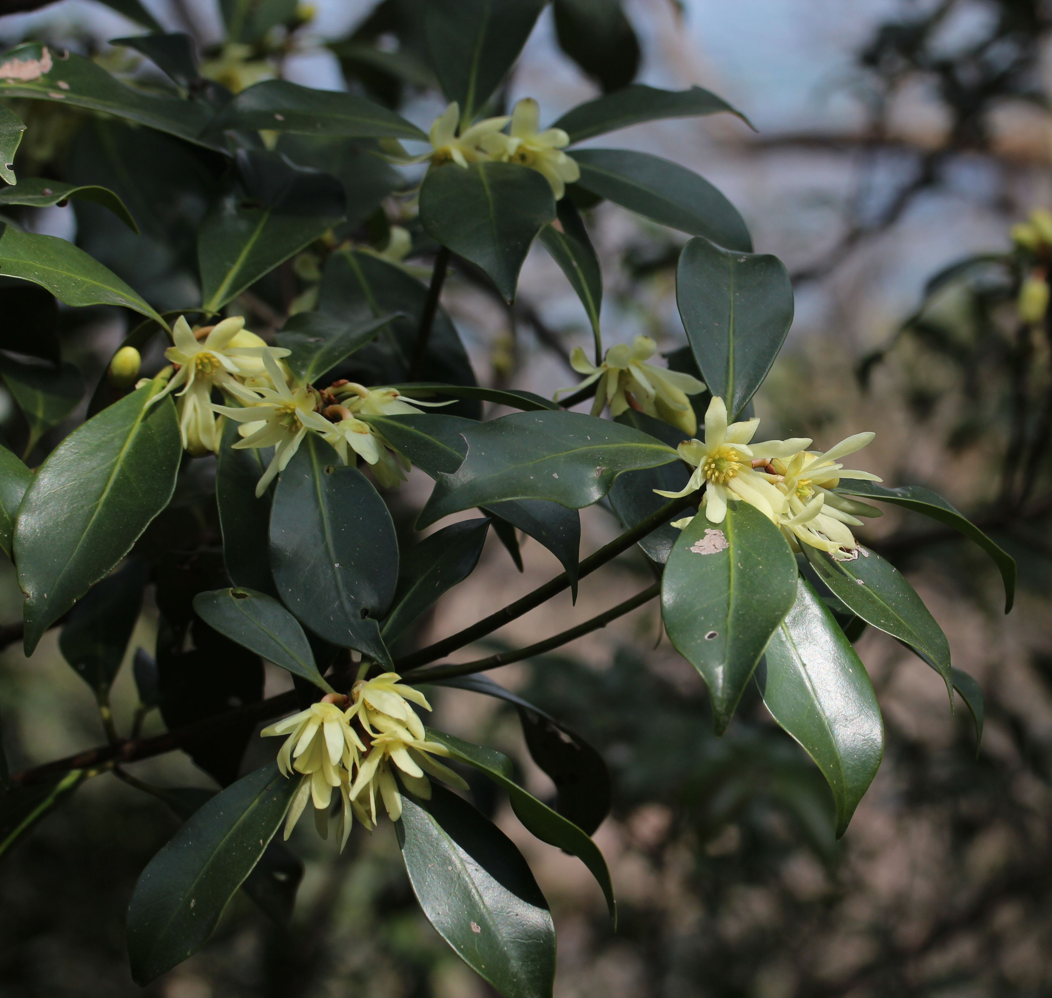 Illicium anisatum in Yoro Mountains, Kaizu, Gifu Prefecture, Japan.